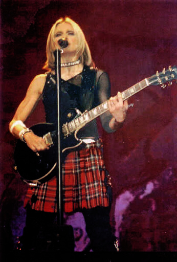 Photo taken at the concert